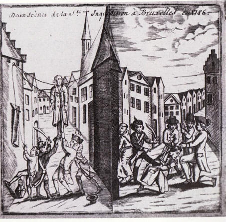 Van Criekinge beheaded by a mob in Brussels (6 October 1790). Published by Emmanuel-Joseph Dinne in Almanach des Trépassés pour l'année 1791